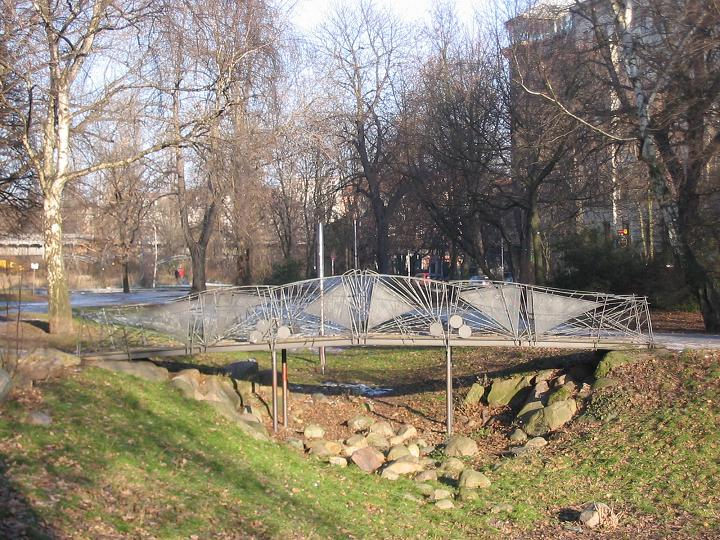 Wassertorplatz („Water-gate-place“ :-)) in Berlin-Kreuzberg. Bridge in the park according to the former canal-bridge.